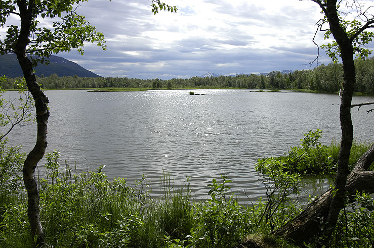 Prestvannet in Tromsø. A park area with a varied and fragile birdlife. Southward view. Foto: Krister Brandser